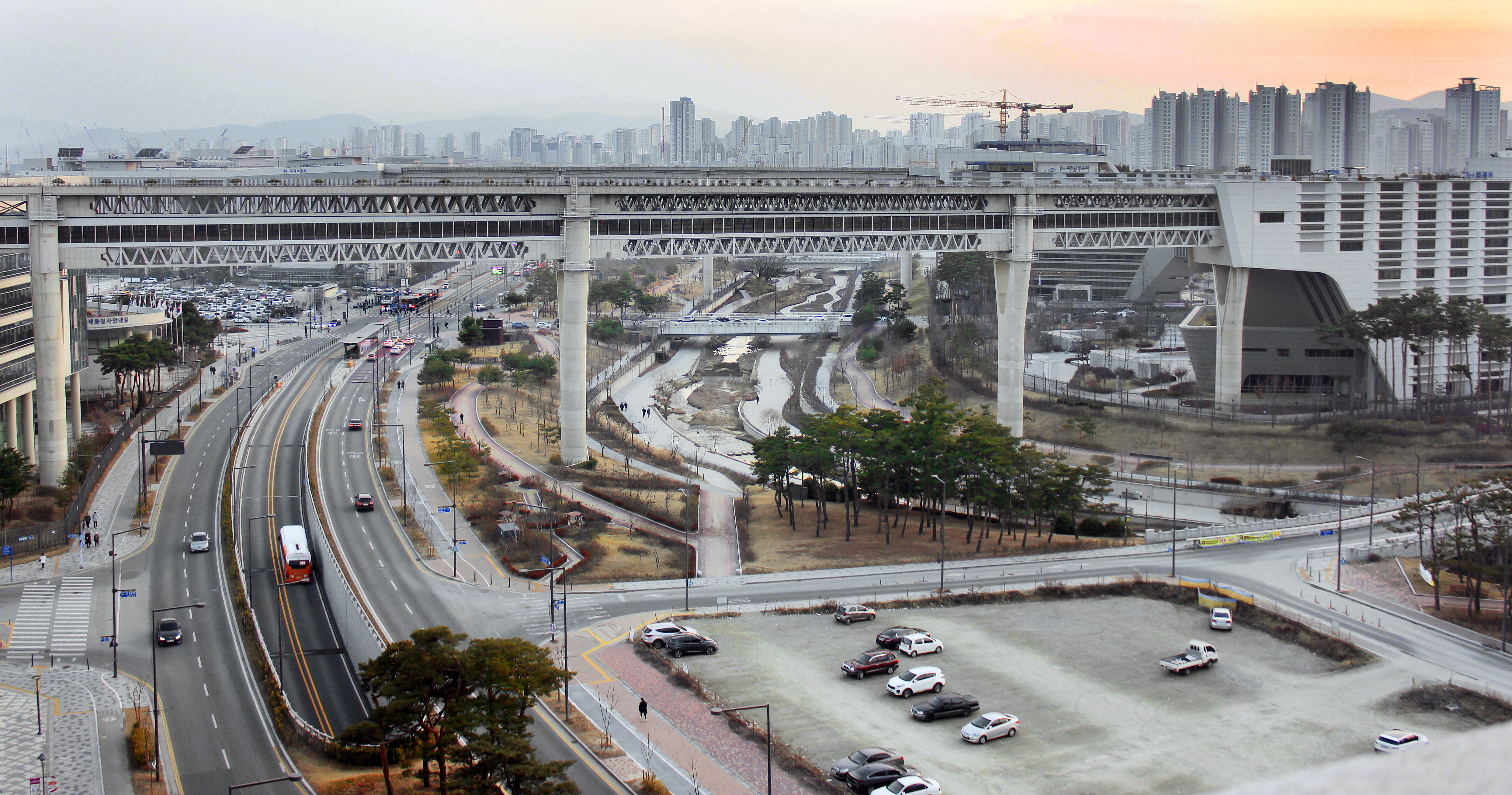 Hannuridaero and Bangchukcheon